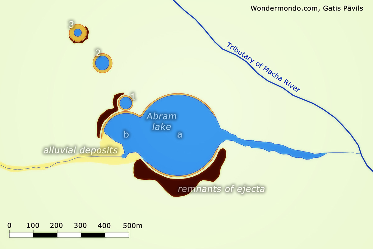 Overview map of the Macha crater field in Russia